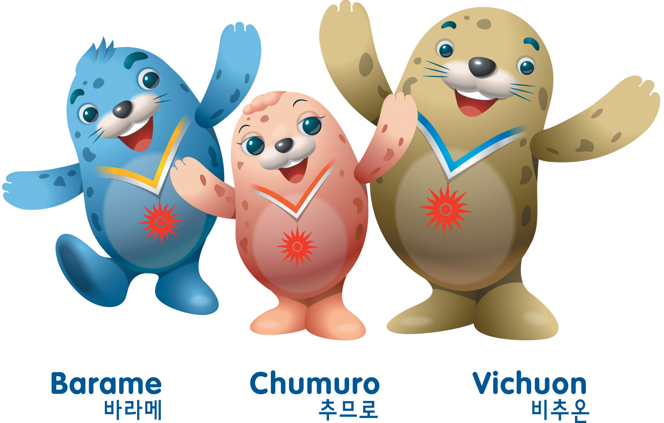 17th Asian Games Incheon 2014 Official Mascot